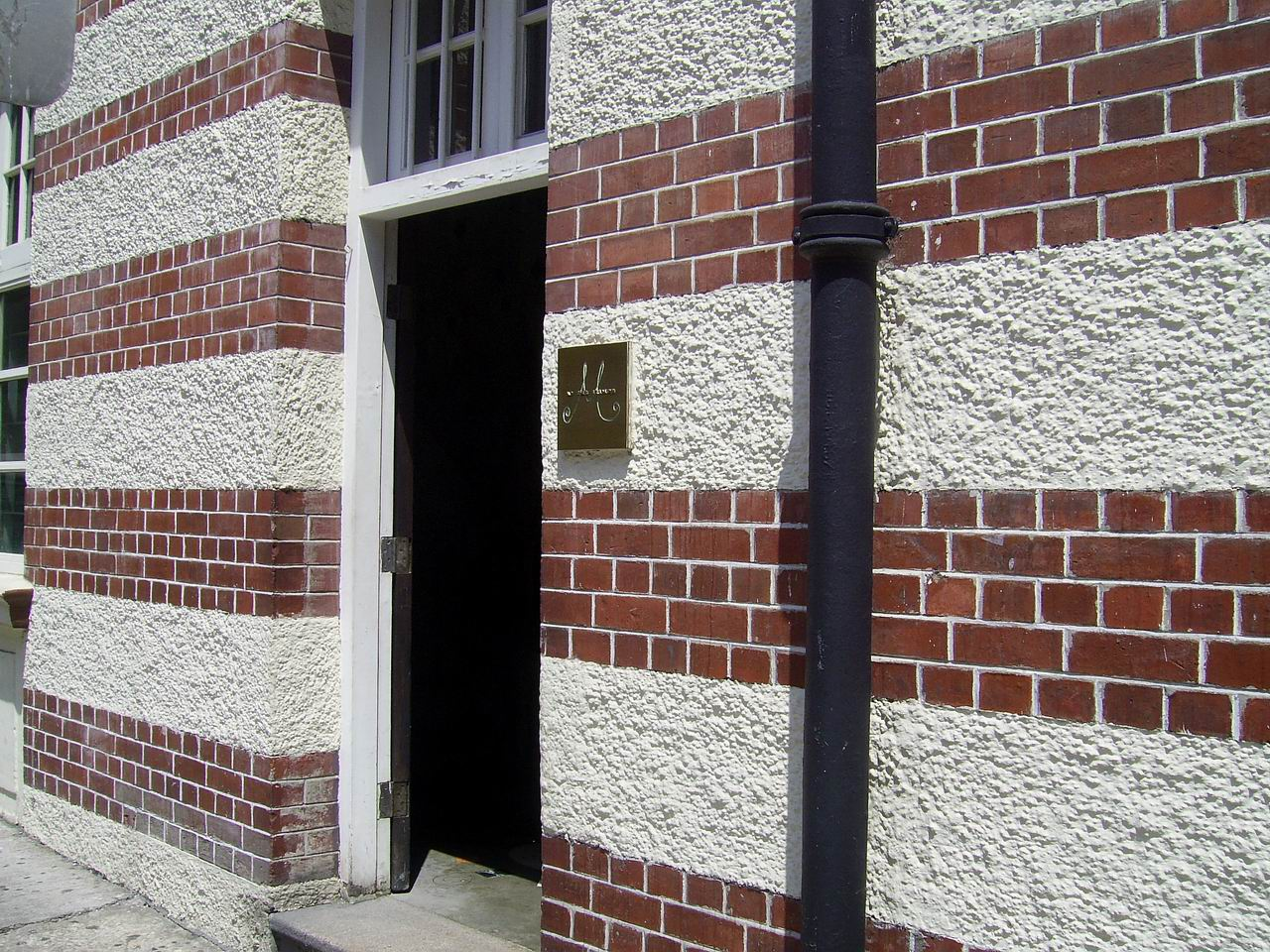 「M at the Fringe」入口